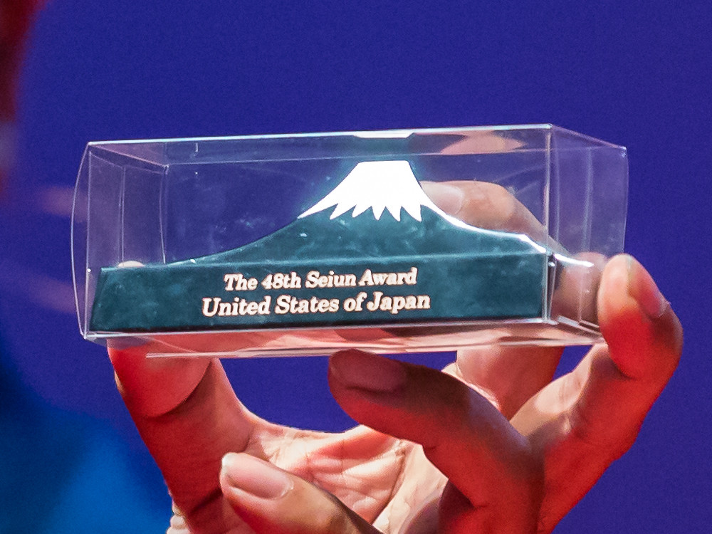 Takeshi Ikeda handing over Seiun Award prize for 'United States of Japan' at the Hugo Awards Ceremony 2017 at Worldcon in Helsinki